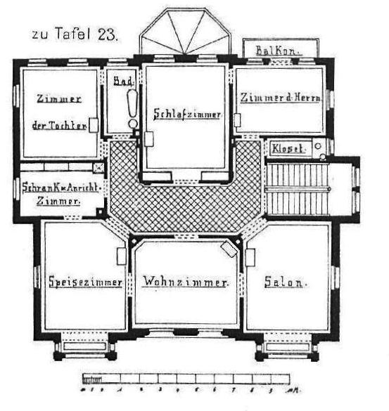 Villa Rümelin, Heilbronn,Grundriss